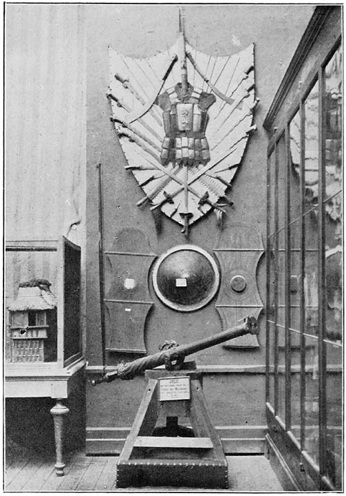 Double-barelled Lantaka of artistic design and Moro arms (c. 1900, Philippines)